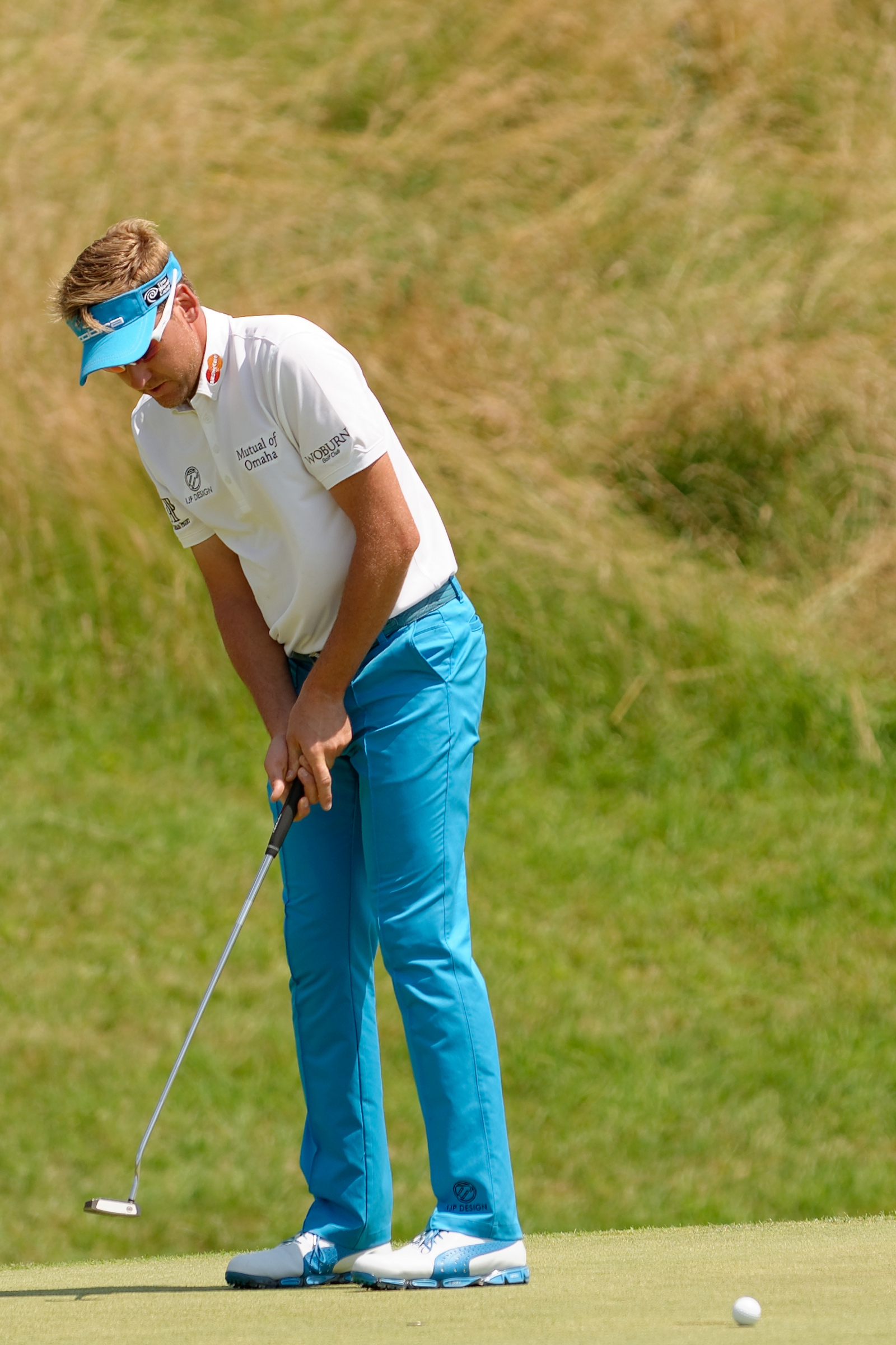 England's Ian Poulter putts on the 9th green during the last round of the French Golf Open at the Golf National in Saint Quentin en Yvelines, Sunday July 7th 2013.